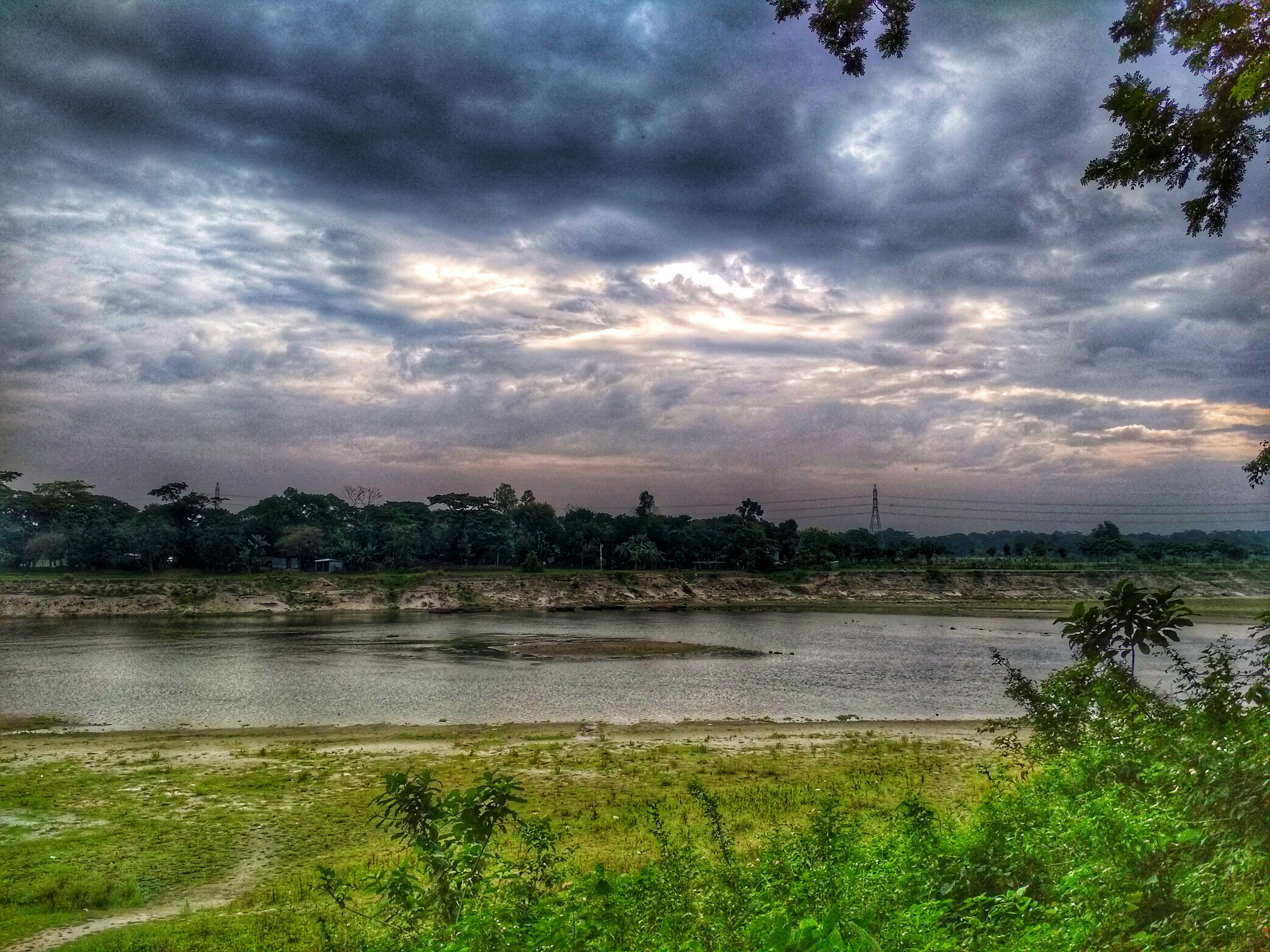 A cloudy sky of Mymensingh Brahmaputra River, Beside Joynul Abedin Park